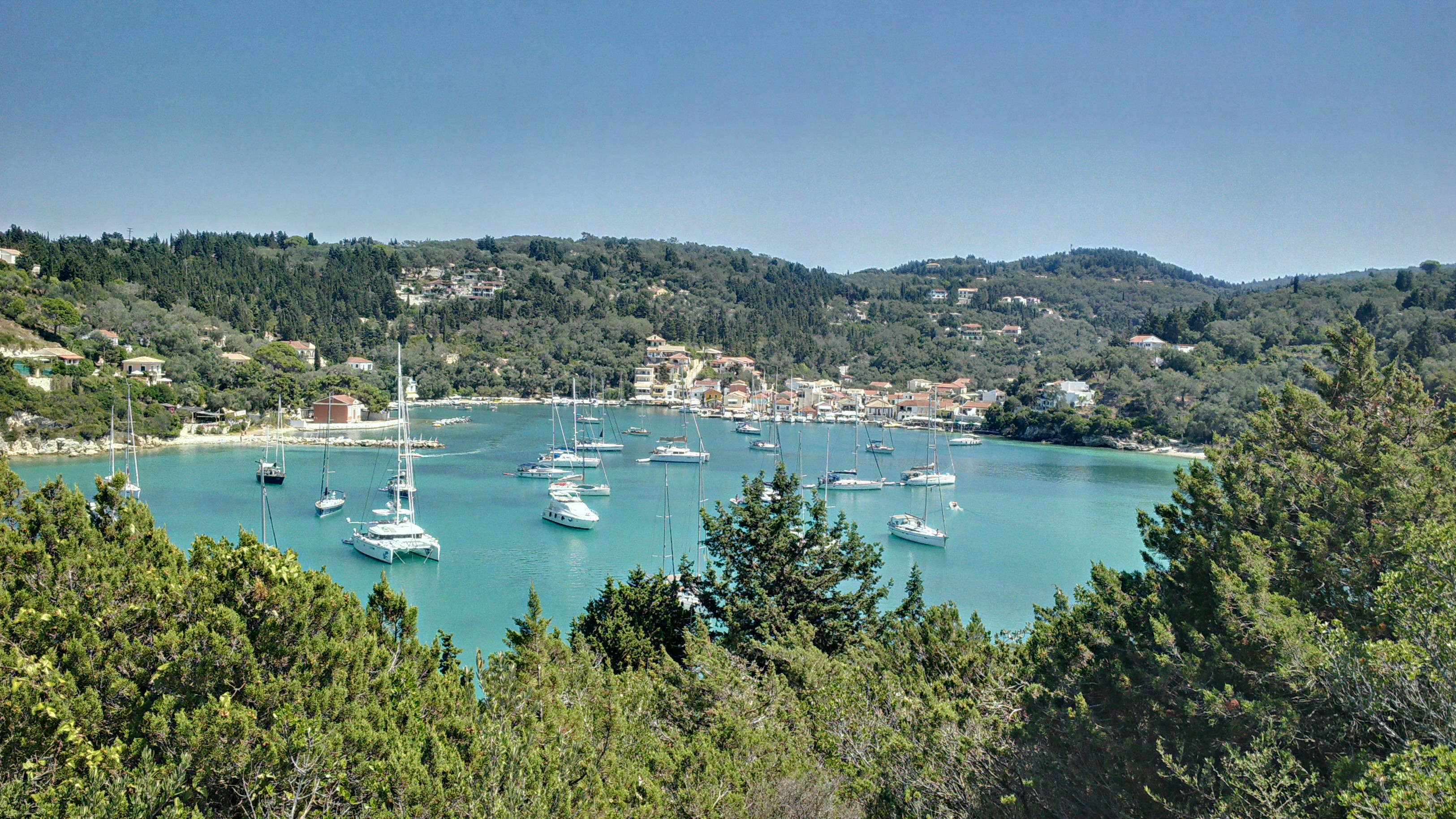 Loggós, Paxoi, the setllement and the bay